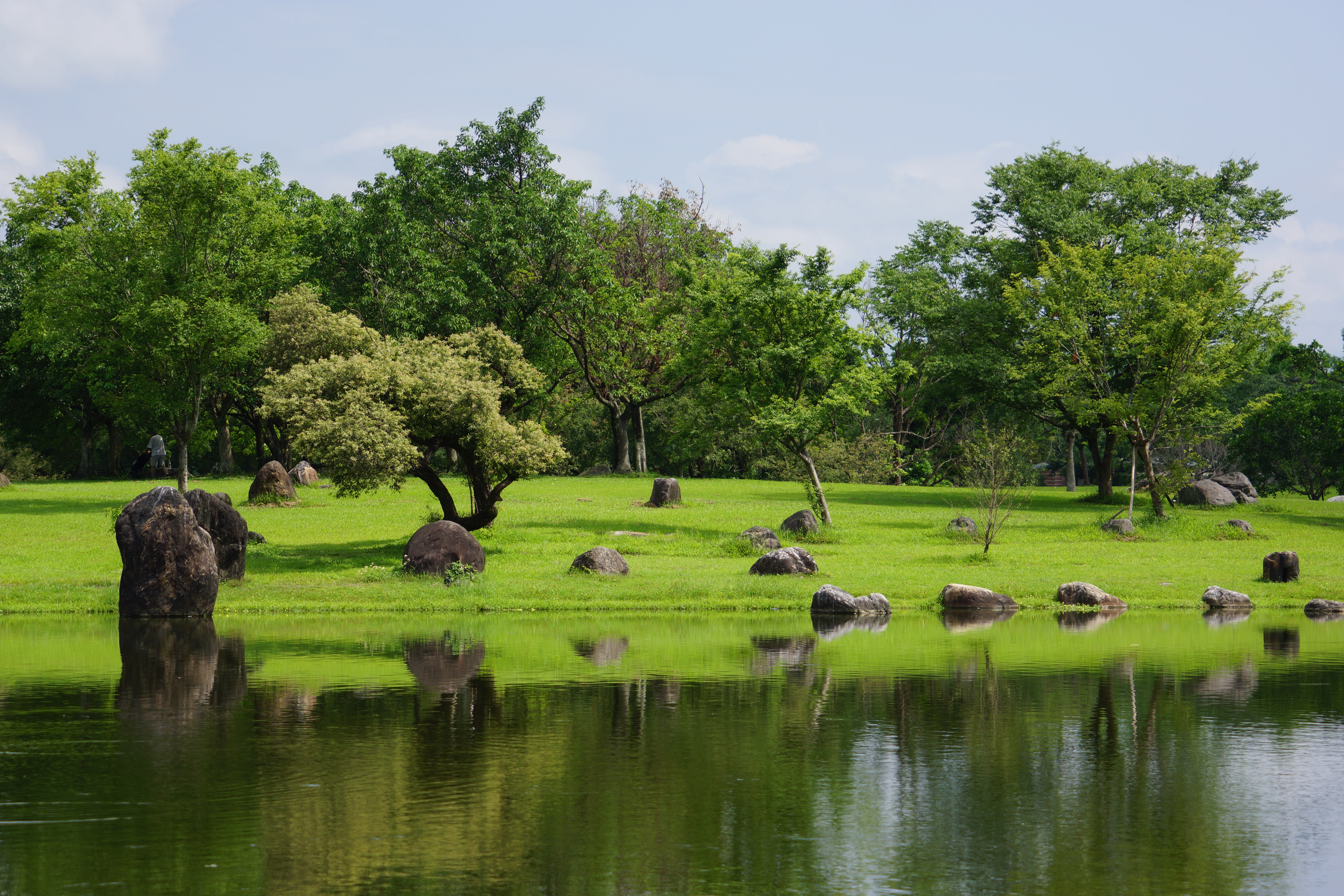 Luodong Sports Park 羅東運動公園